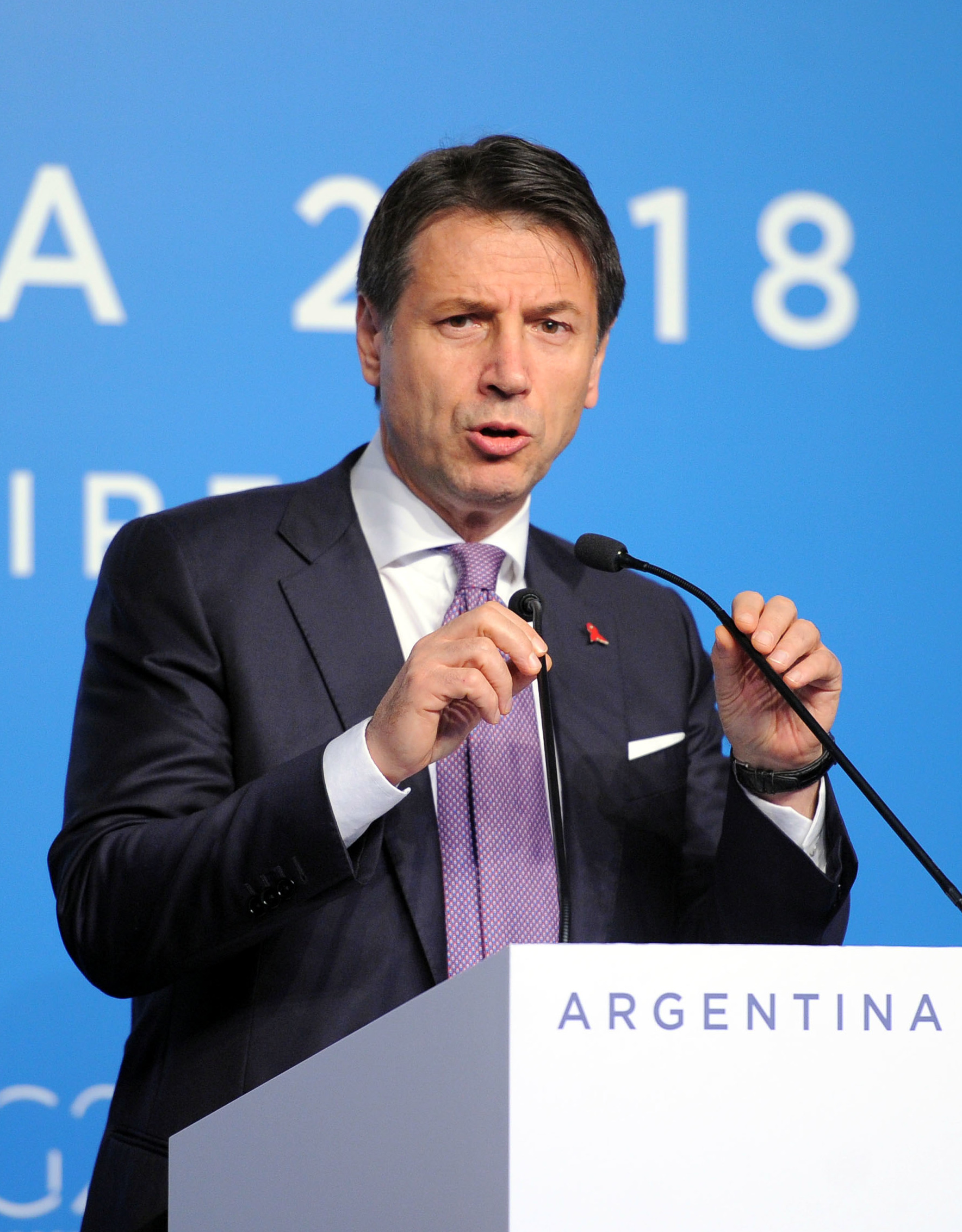 Press Conference - Prime Minister of Italy, Giuseppe Conte